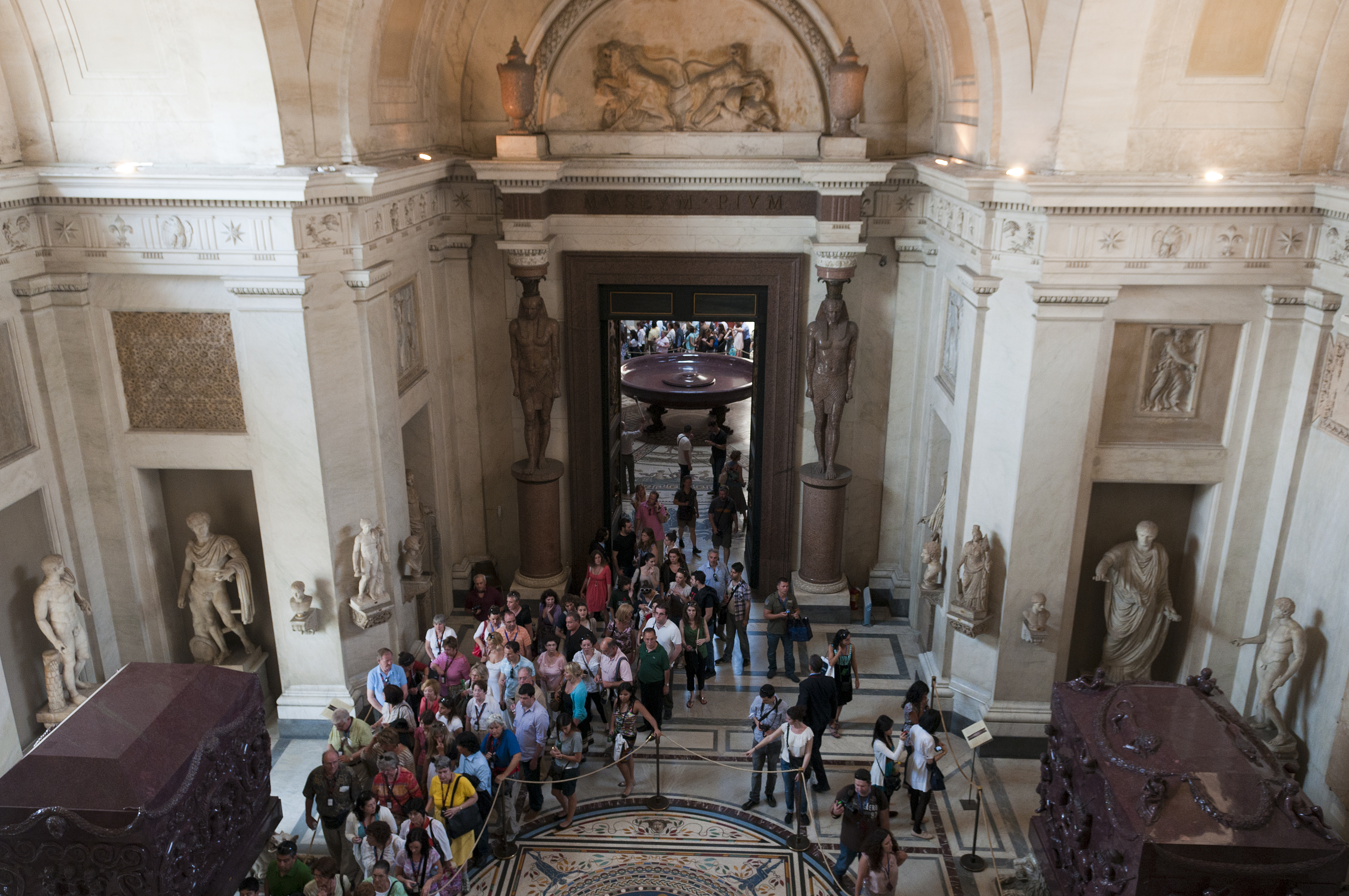 Crowds in Vatican Museum